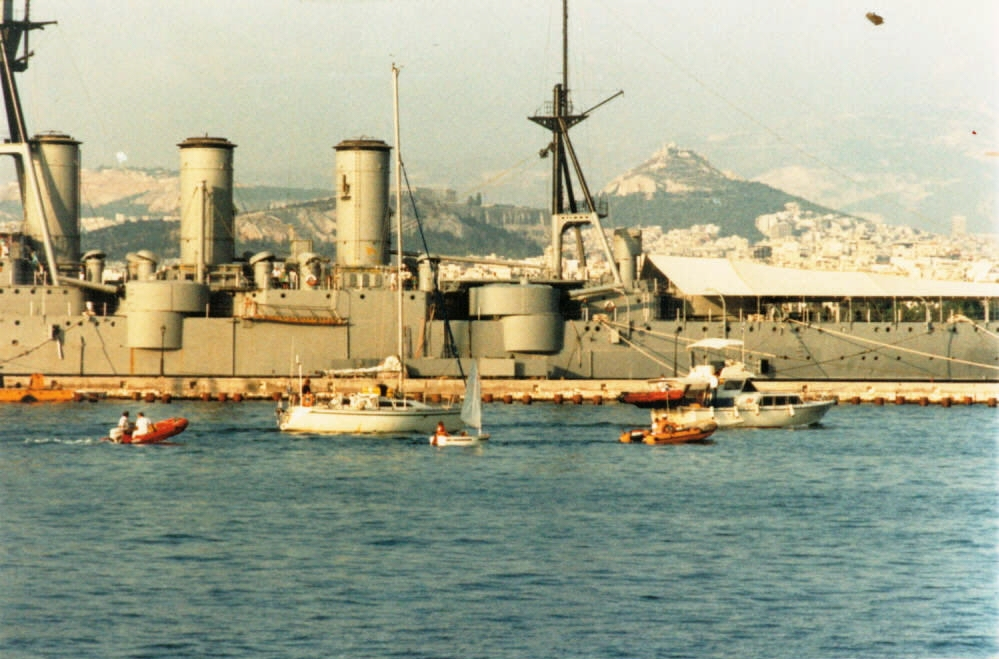 Christos Panagoulopoulos arrival in Marina Flisvou, Greece after a voyage across the Atlantic who made alone in a 35 feet long Kamper-Nickolson sloop in 1989